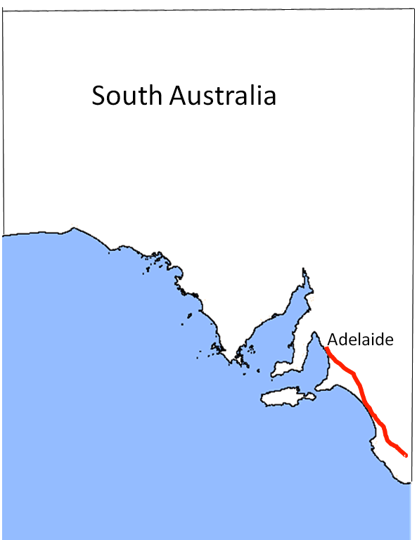 Approximate location of the SEA-Gas Pipeline in South Australia